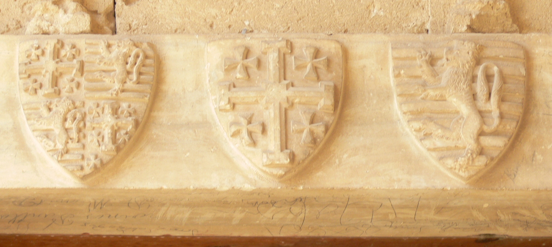 Bellapais monastery ( Northern Cyprus ). Refectory ( 14th century ): Coats of arms of the kingdom of Cyprus.